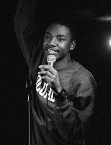 Not Safe For Work Presented by Comedy Central Produced by CleftClips Photography by Mandee Johnson / American comedian Jerrod Carmichael at the Del Monte Speakeasy at Townhouse Venice - Los Angeles, CA May 7, 2013